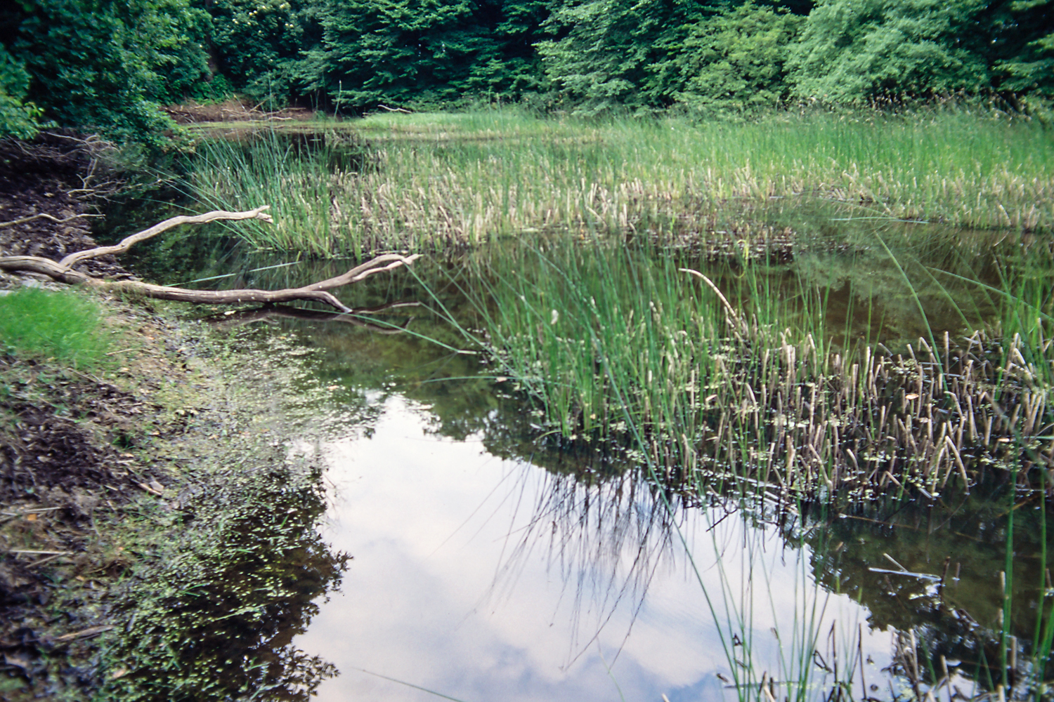 Pool in the forest "Beienroder Holz" south of Wolfsburg, district Helmstedt, eastern Lower Saxony, Germany.